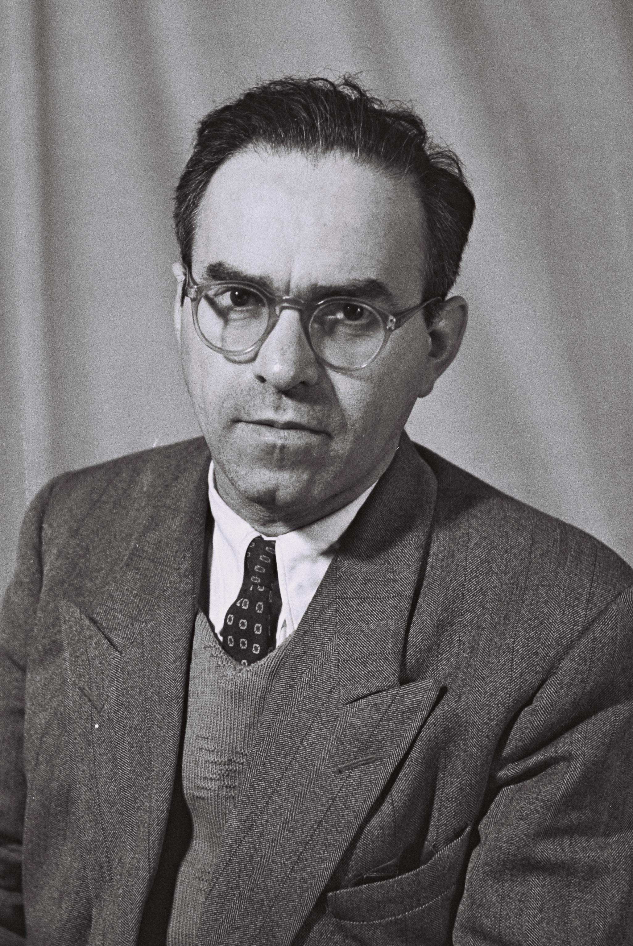 Portrait of Zerah Warhaftig, N.R.P.